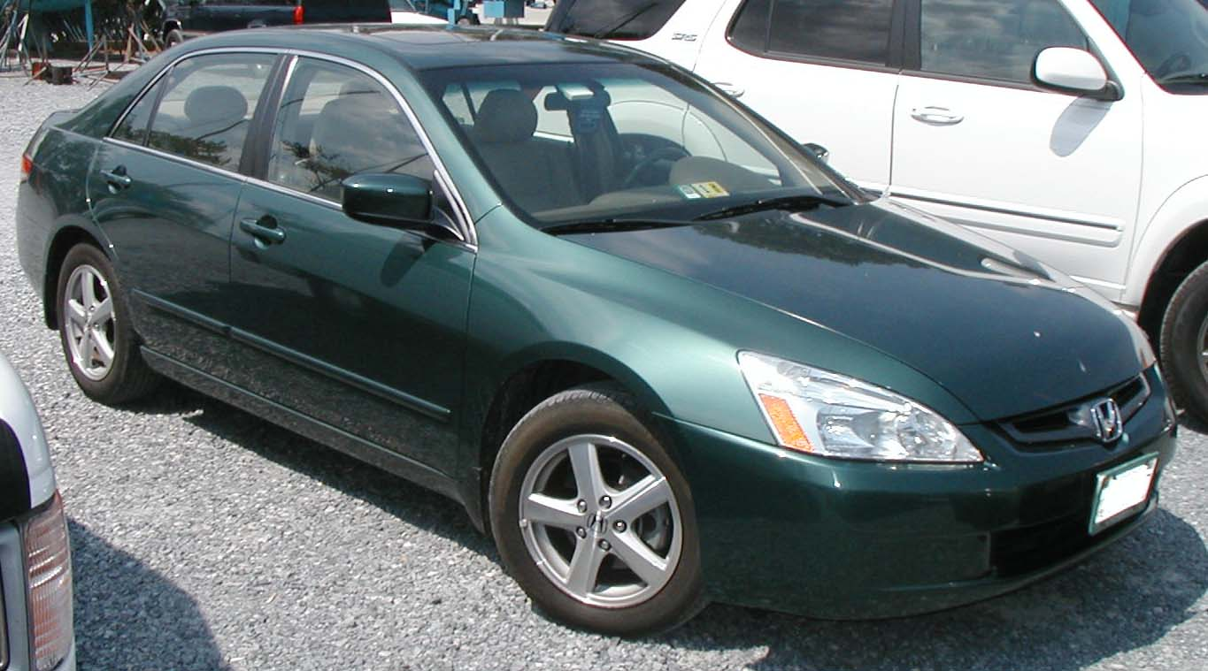 2003-2004 Honda Accord sedan photographed in USA.